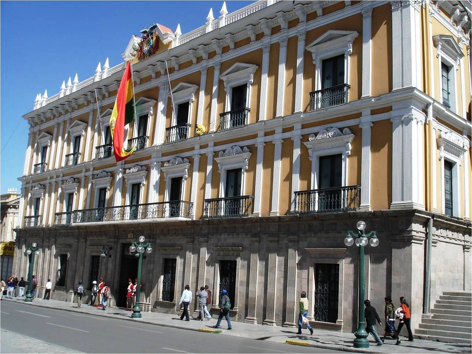 Palacio Quemado in La Paz, Bolivia.